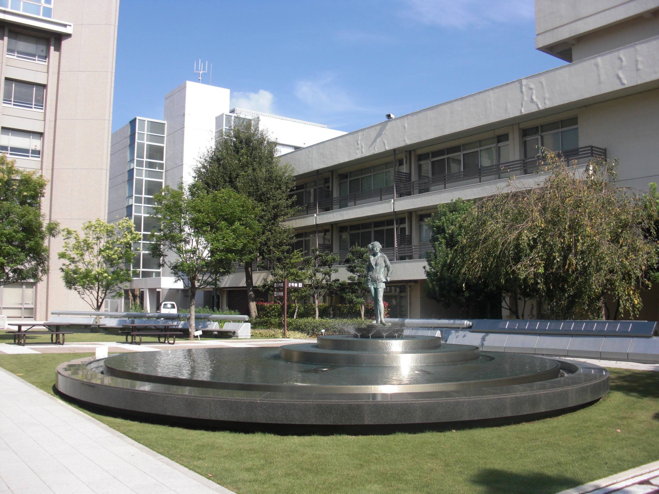 This is a fountain of Ryutu Keizai University Ryugasaki Campus.